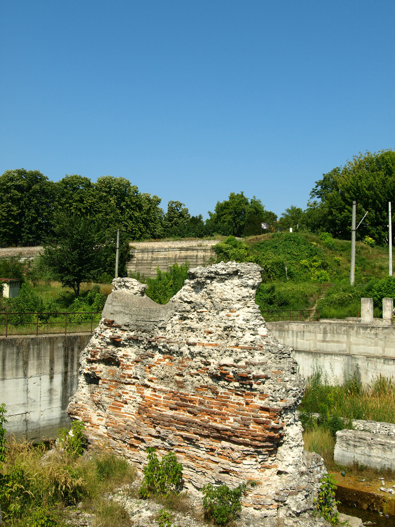 The ancient ruin of a pier of Trajan's Bridge on the Romanian shore of the Danube, at Drobeta-Turnu Severin. It is presently surrounded by a square concrete compound which was built to protect it from the rise of the water level following the construction of the Iron Gate I dam. In the background, a few meters away from the concrete wall and not visible, the railway track which connects Orșova to Craiova.